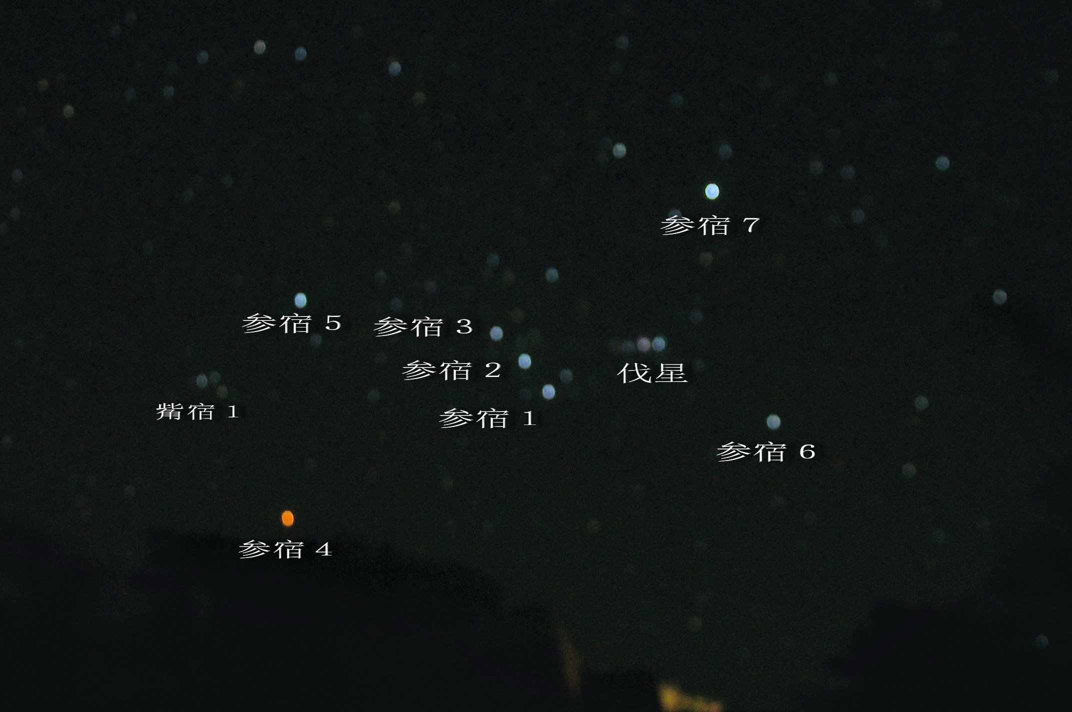 The major stars in constellation Orion